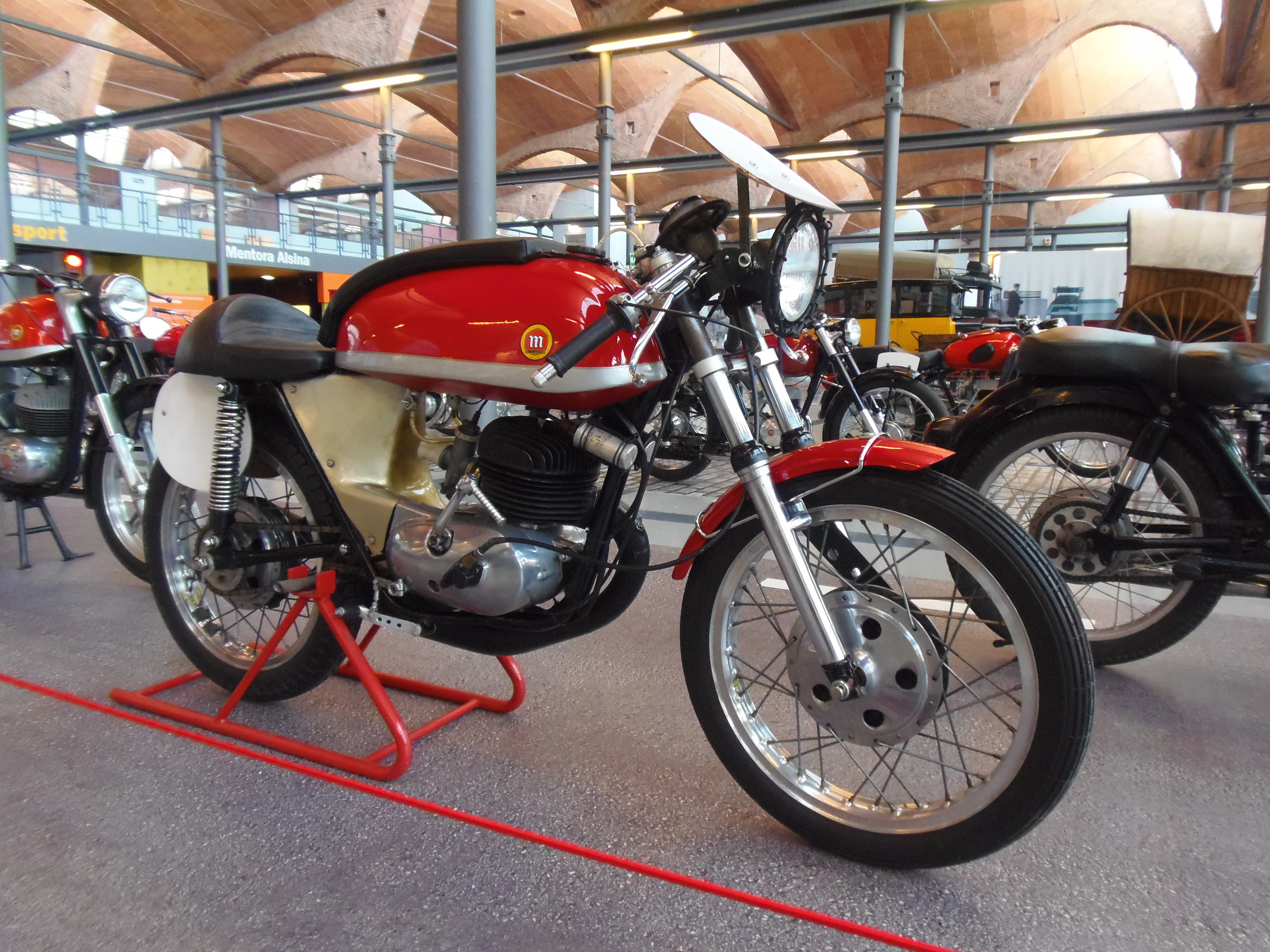 Montesa Impala 250cc. On this bike, the brothers Enric and Jordi Sirera won the IX 24 Hours of Montjuïc, on 1963